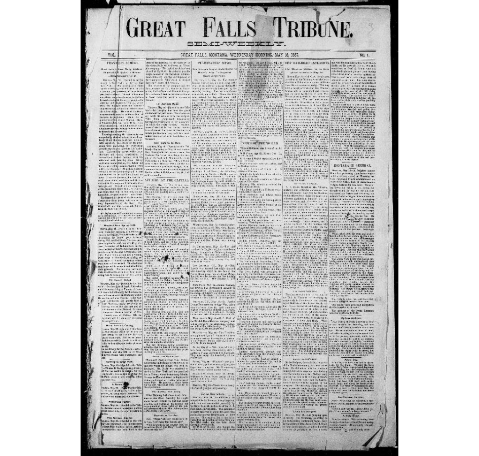 May 18, 1887 issue of the Great Falls Tribune. 2 years and 4 days after its first issue.